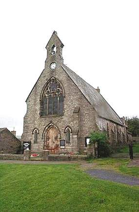 Reeth Congregational Church.